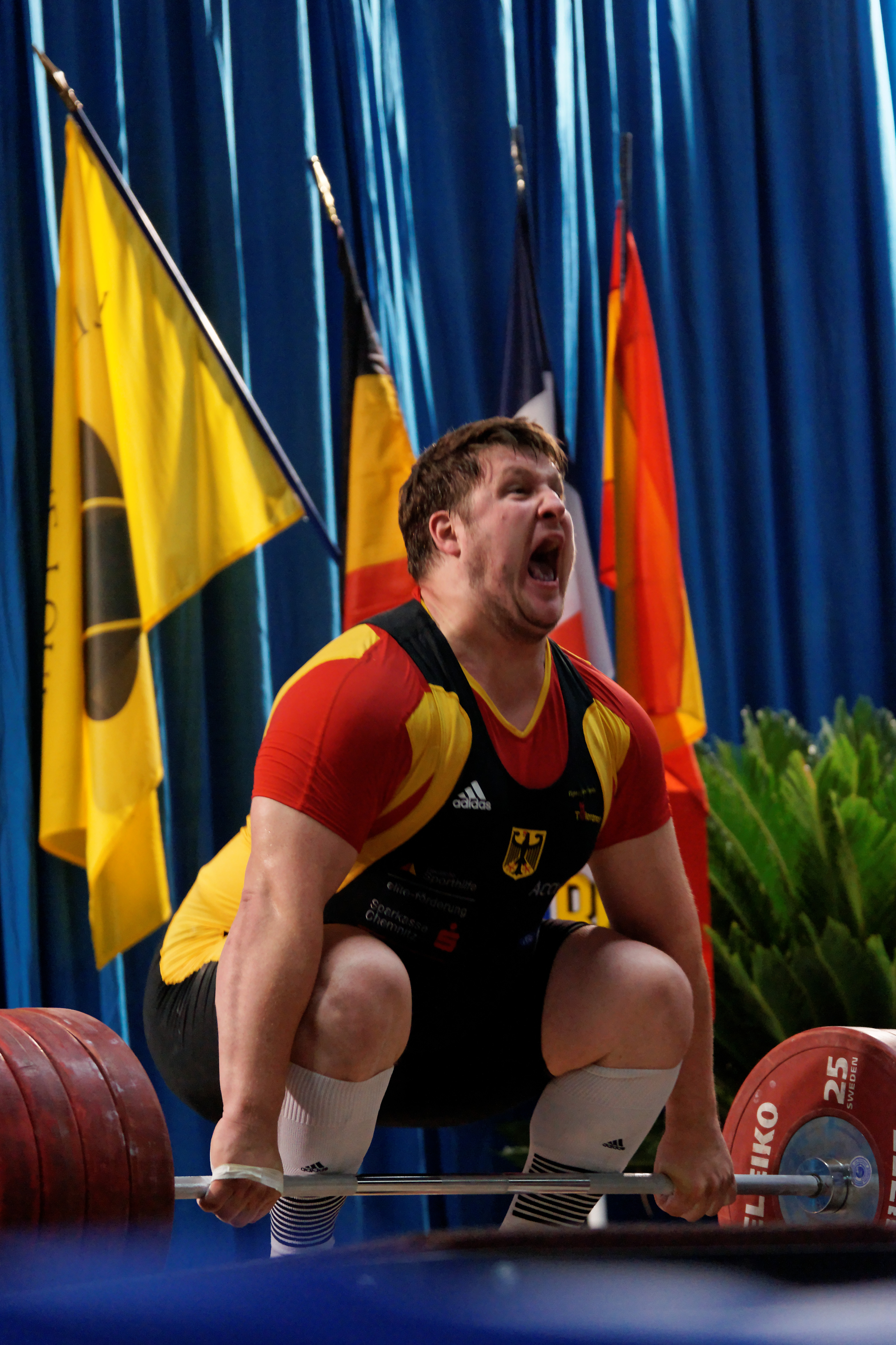 Matthias Steiner, olympic champion 2008 des 105kg+ during "souvenir Monique Maurice, Villeneuve-Loubet", France